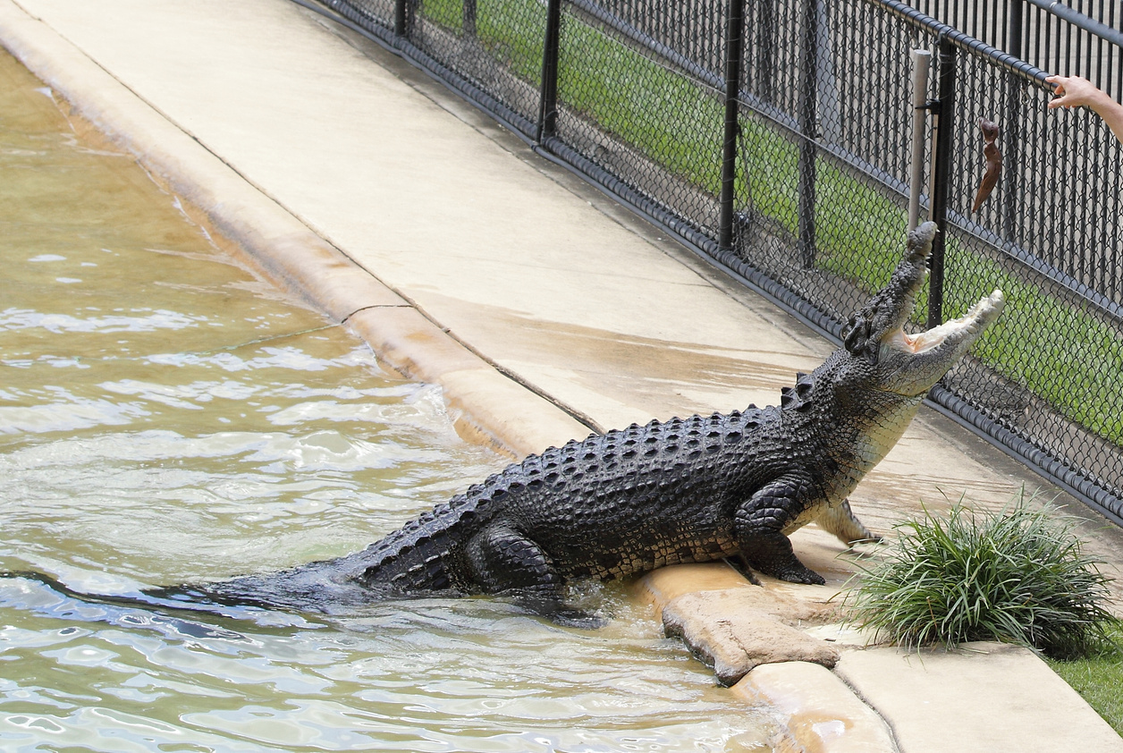 Saltwater crocodile